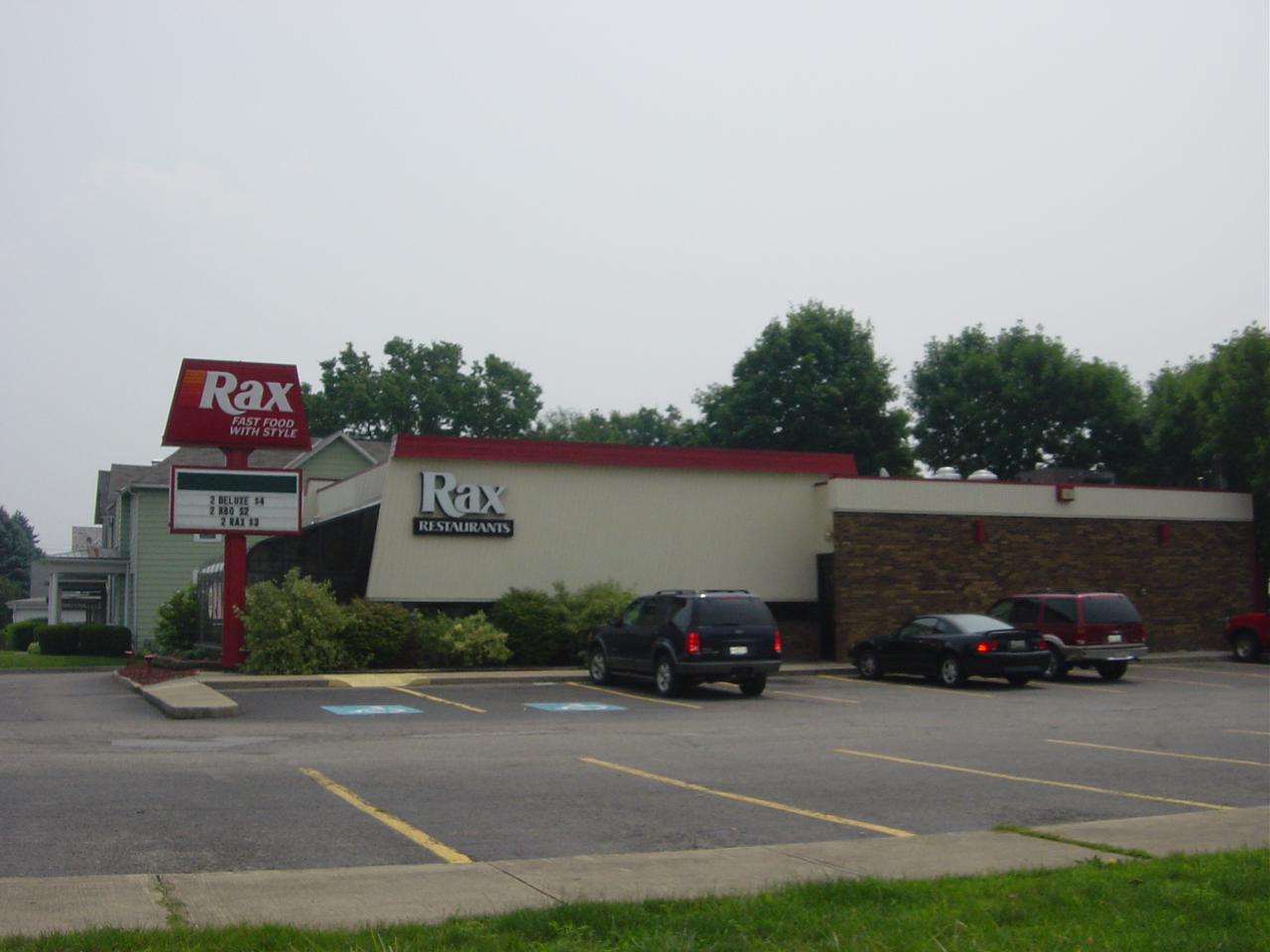 An open Rax Restaurant on E. Main St. in Lancaster, OH.